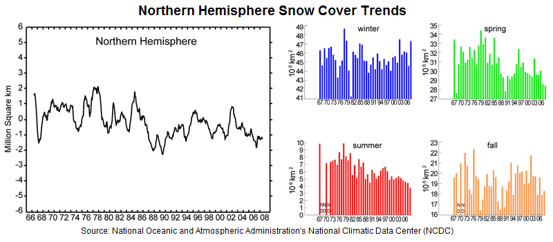 This graph is an edit of this image and shows the decrease in snow cover in the northern hemisphere according to NOAA, with yearly data going from 1966 to 2008. The data specifically indicates that the cover for the spring and summer have fallen while the cover for the fall and winter have stayed about the same. Note that the separate graphs are not on the same scale.